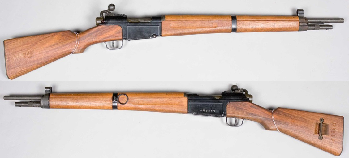 French MAS-36 bolt action rifle. This is an example of a post World War II produced rifle.